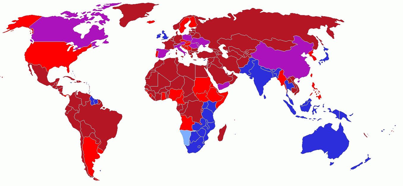 User created world map showing the driving directions for all countries and any changes that have occurred in the past starting with Finland's change in 1858 Right Red - driving on right; also known as Right Hand Traffic (RHT) Light Red - driving on right; but in the past, this country drove on the left. Purple - driving on right; but in the past, this country had different rules of the road depending on one's location. Left Blue - driving on left; also known as Left Hand Traffic (LHT) Light Blue - driving on left; but in the past, this country drove on the right.